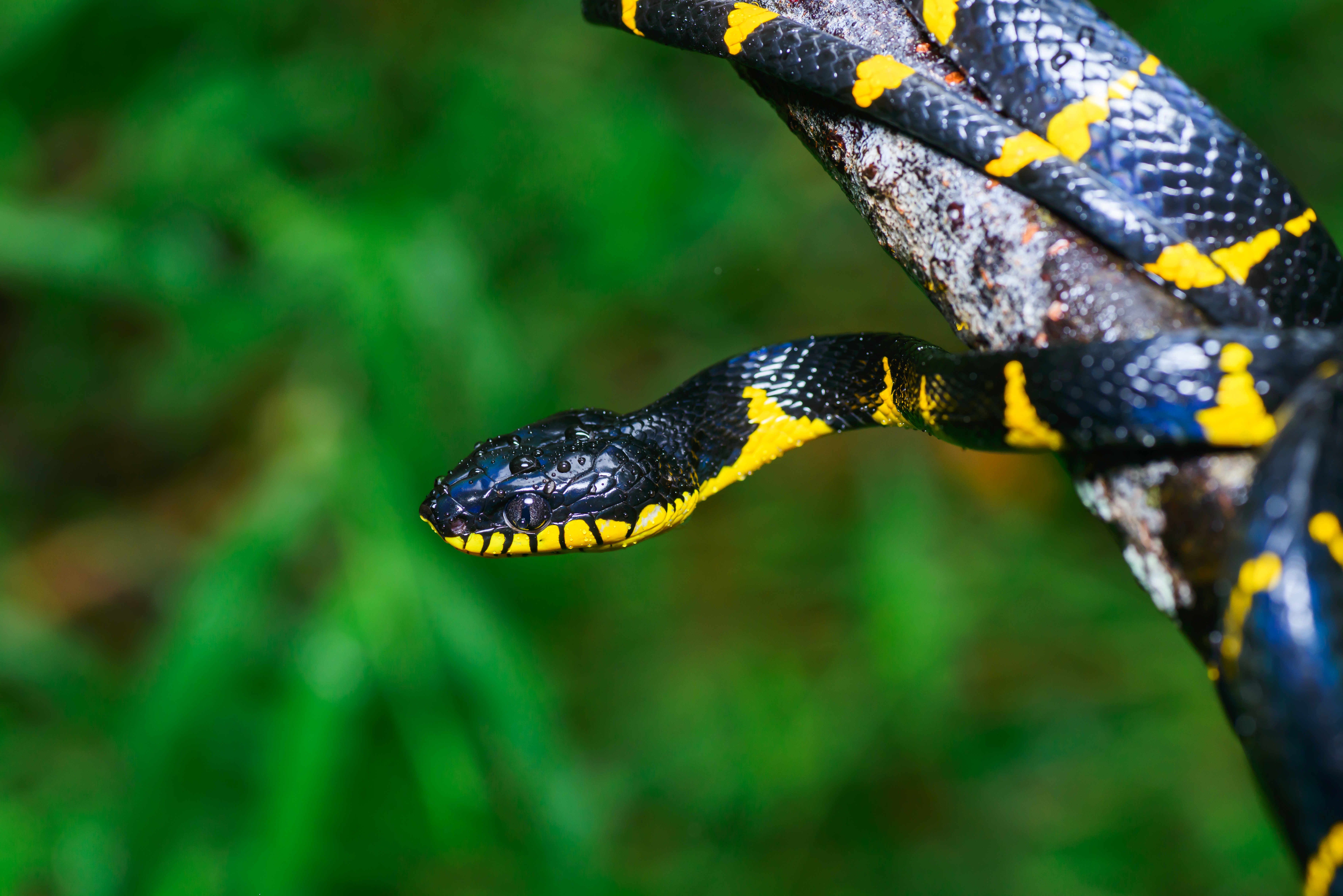 Boiga dendrophila, Mangrove cat snake - Khao Sok National Park. Photo by Thai National Parks